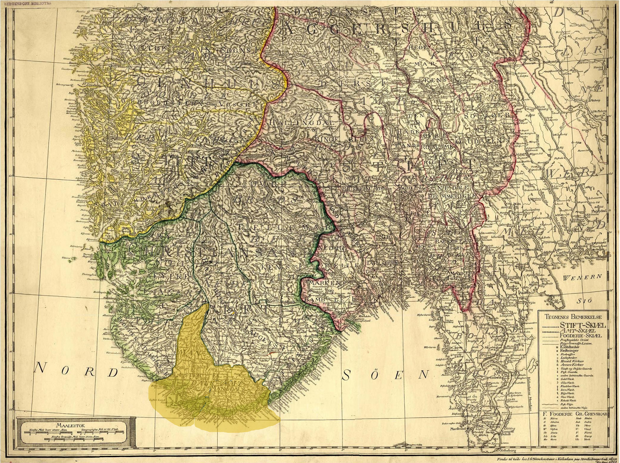 Mandals amt. Derivated from norwegian map from 1880's